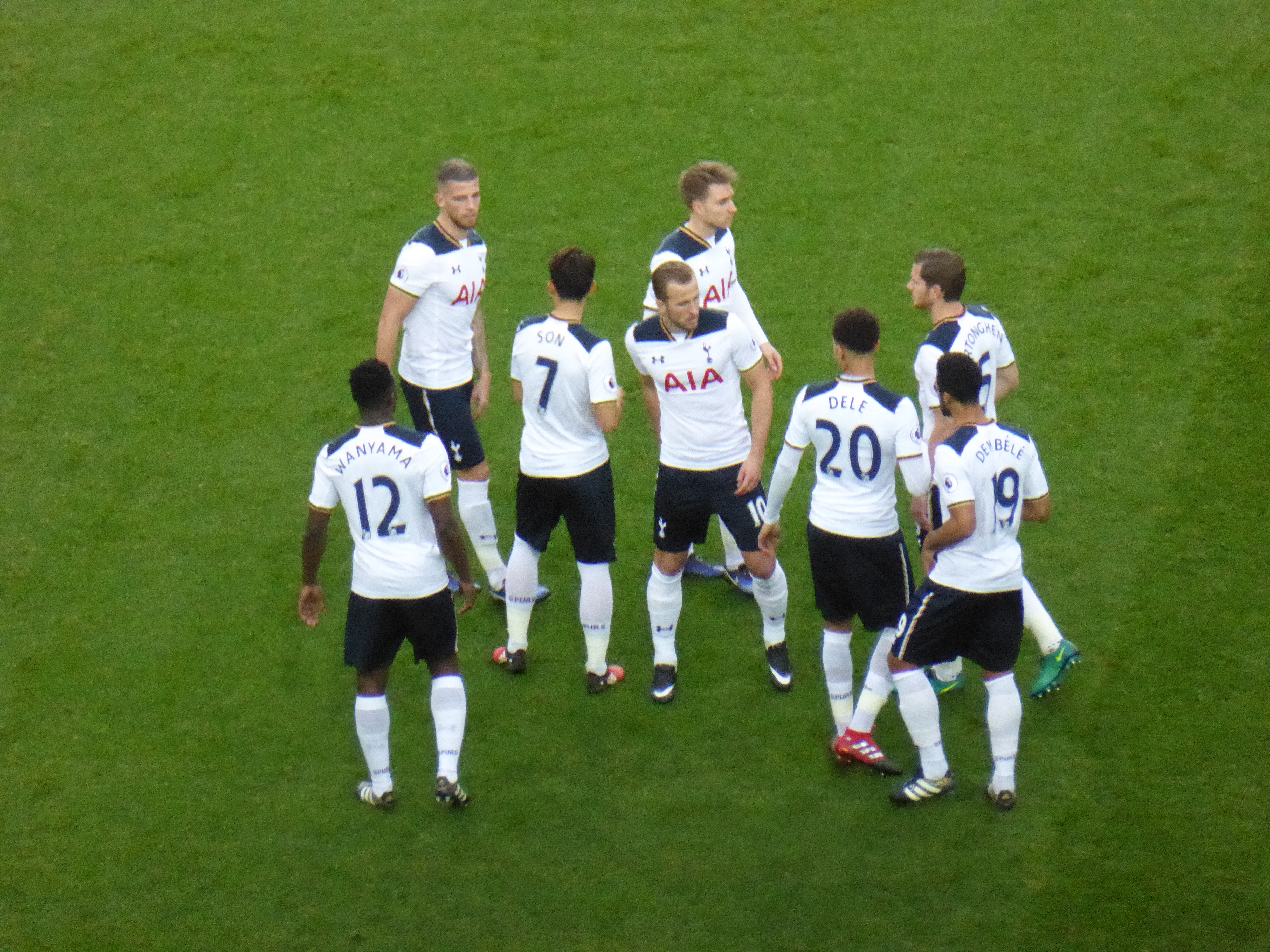 Manchester United v Tottenham Hotspur (1-0), Premier League, Old Trafford, Manchester, Greater Manchester, England, December 2016